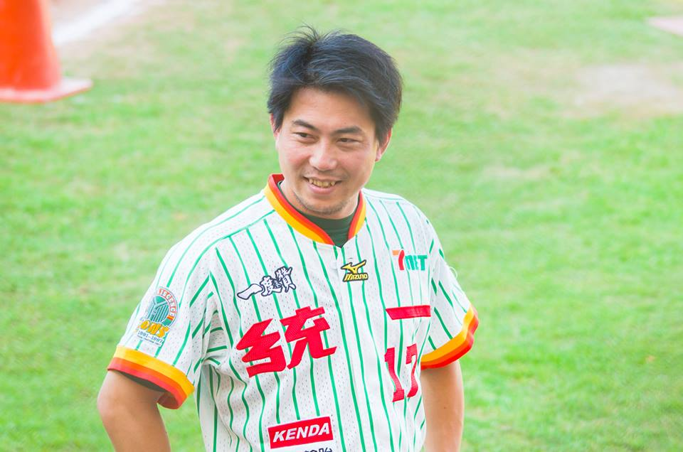 Lin Yueh-ping at a baseball game of New Taipei City of Taiwan in Septemper 7, 2013.